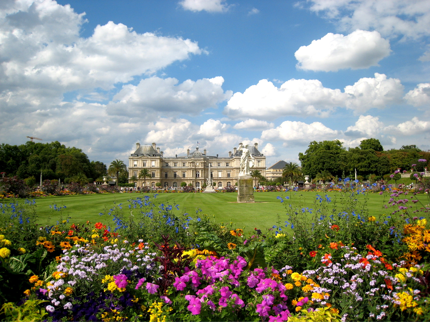 Jardin du Luxembourg and the Luxembourg Palace, Paris.